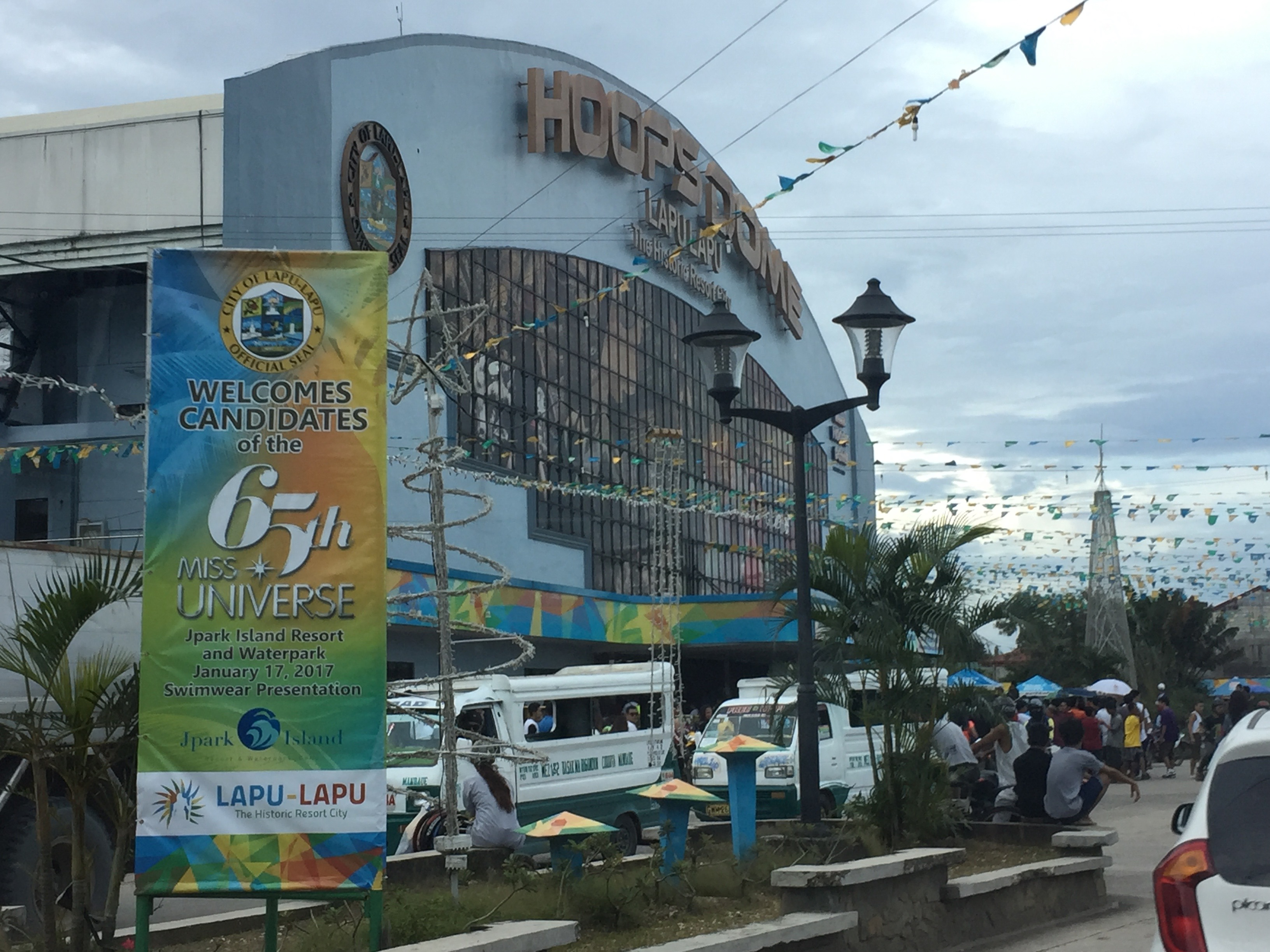 Hoops Dome on January 21, 2017